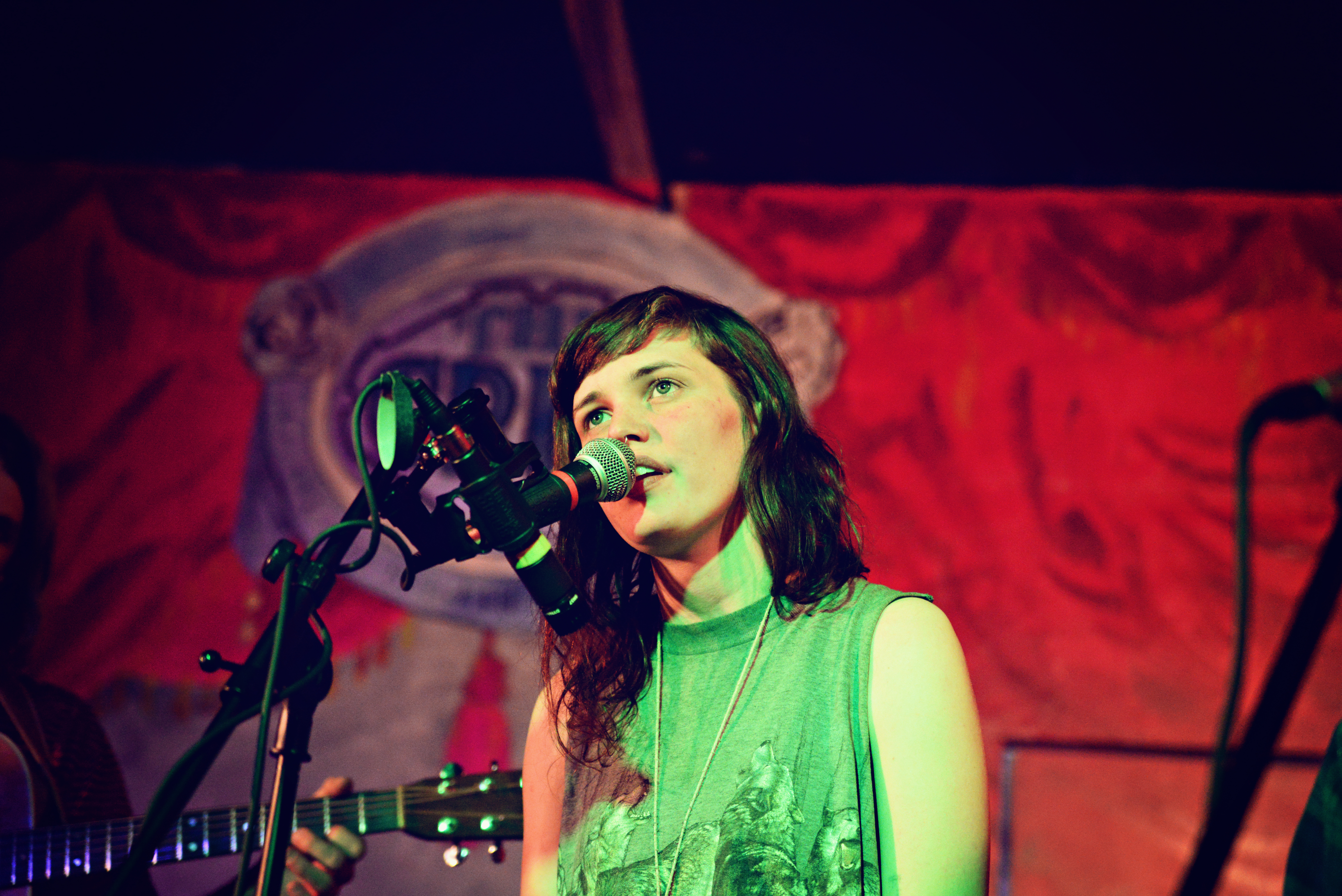 Saintseneca performs at the third annual Treefort Music Fest in Boise, Idaho